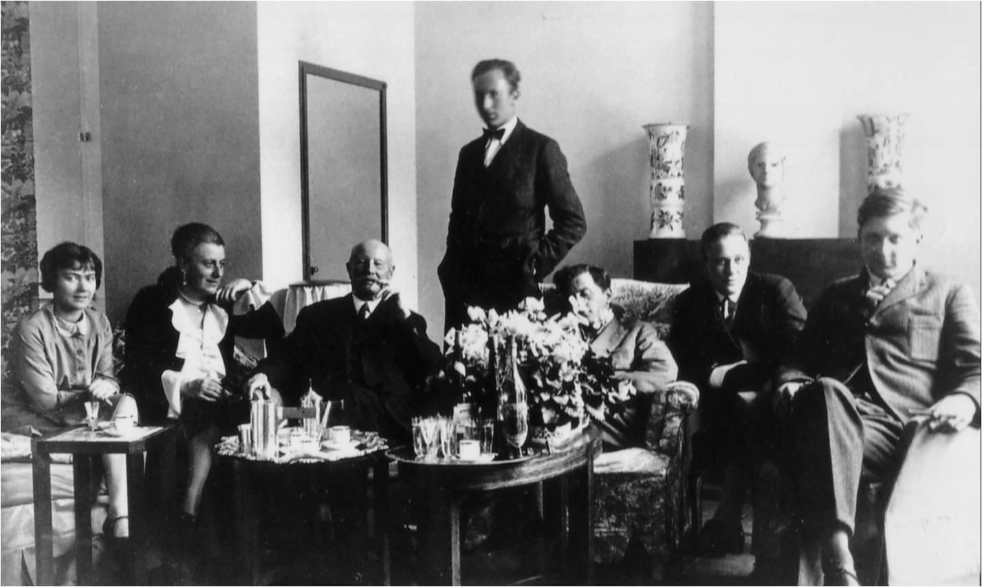 Wittgenstein is sitting laughing with his friends, the sculpture he made sits at the back